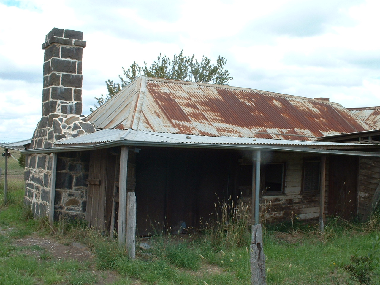 The Kelly house at Beverdige, Victoria. This was where bushranger Ned Kelly lived as small child, and his sister Kate was born here. This is a view of the west side, at the back of the house.